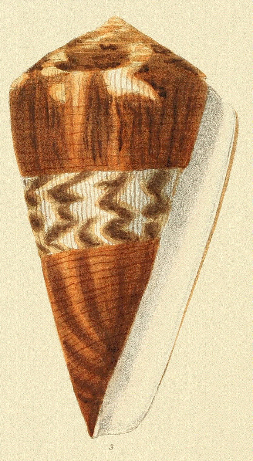 Conus vexillum